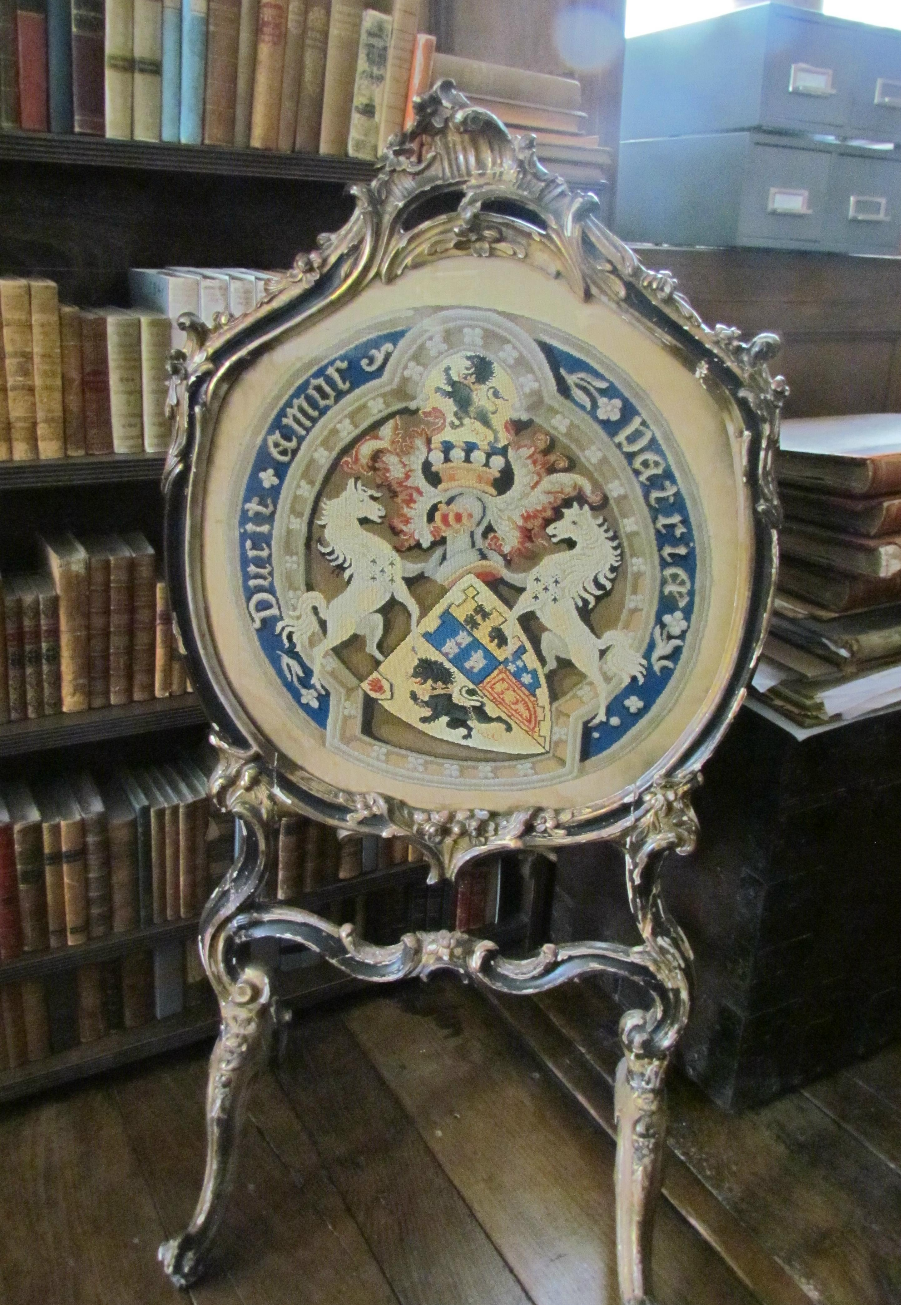 Embroidery: arms of Richard Bulkeley Philipps, 1st Baron Milford (1801–1857) and his first wife Eliza Gordon, daughter of John Gordon of Hanwell. Victorian painted and gilt carved wood fire screen in the Library at Baddesley Clinton House. Arms: Argent a Lion rampant Sable gorged with a Ducal Coronet therefrom a Chain reflexed over the back Or; crest: A Lion rampant gorged and chained as in the Arms; Supporters: On either side a Horse Argent charged on the breast with five Ermine Spots two one and two Sable; Motto: Ducit Amor Patria. (